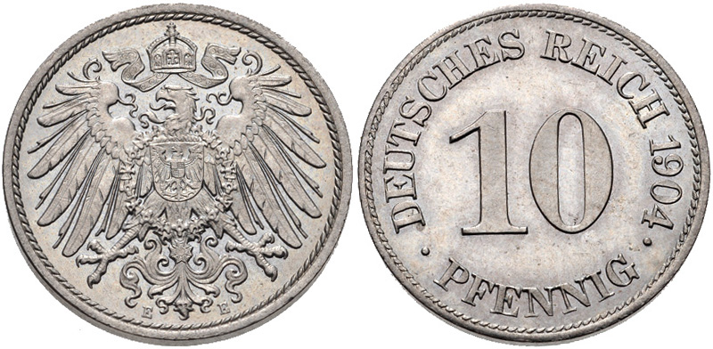 GERMANY, Kaiserreich. 1871-1918. Proof NI 10 Pfennig (21mm, 4.00 g, 12h). Muldenhutten mint. Dated 1904 E. Crowned eagle facing, with wings spread; on breast, coat-of-arms within collar / Denomination. Cf. KM 12 (business strike); cf. Jaeger 13 (same). Proof, faint iridescent toning.